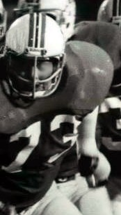 New England Patriots offensive guard John Hannah (American football) pictured in an offensive play against the Denver Broncos.